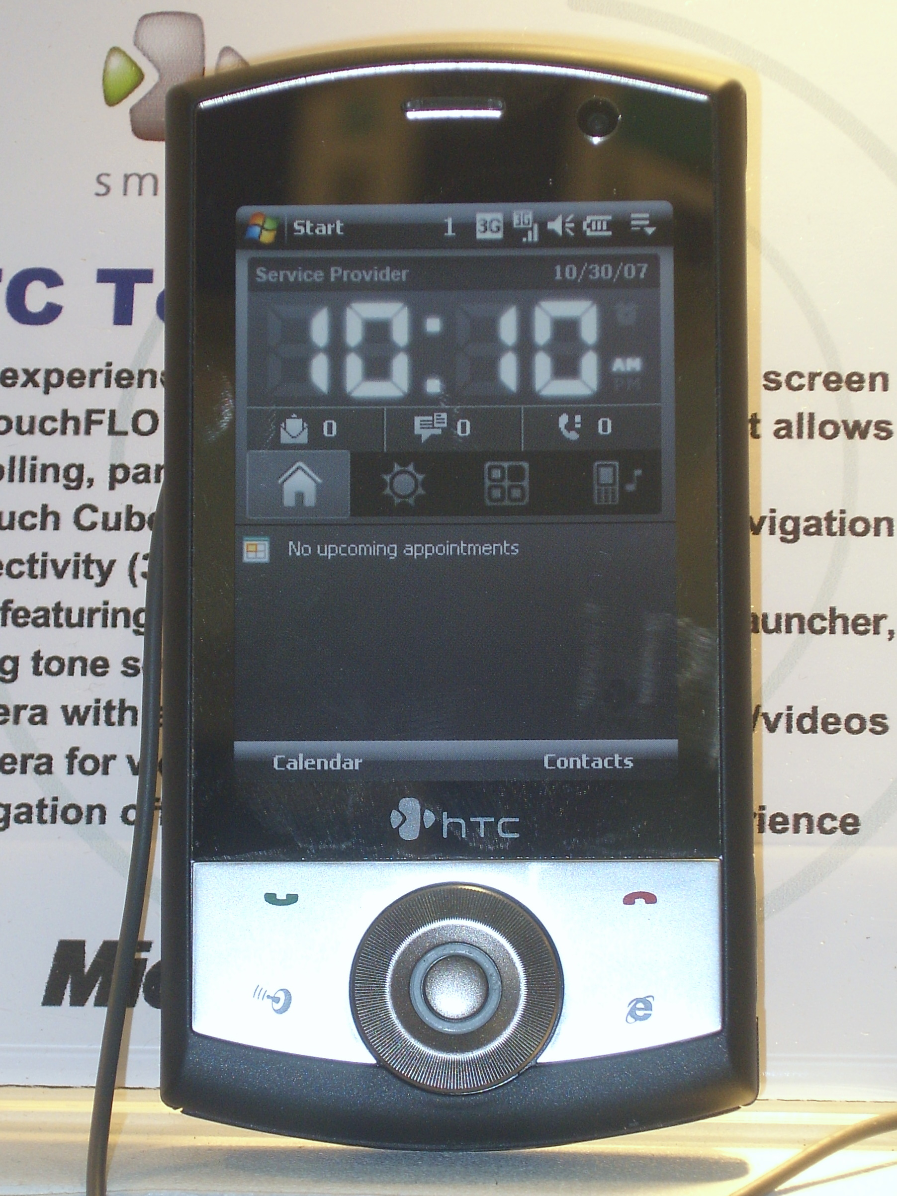 2008 COMPUTEX: HTC Touch Cruise.